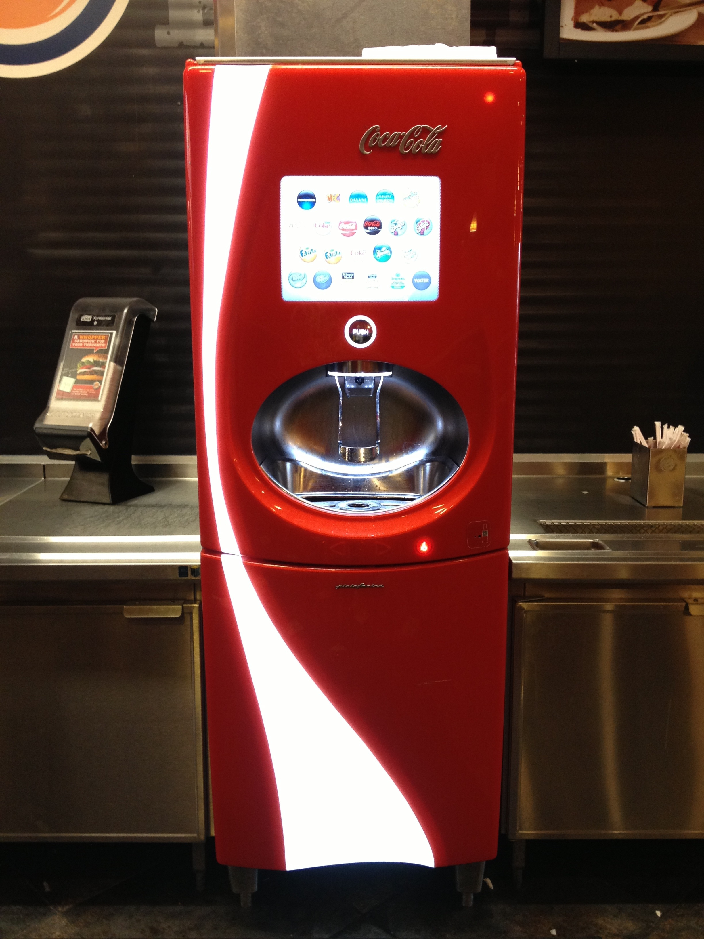 Make your own soda combinations. Probably wont last long because people keep mixing flavores that taste like crap then tossing out soda and making another combo. The body of the machine was designed by Pinnafarina.